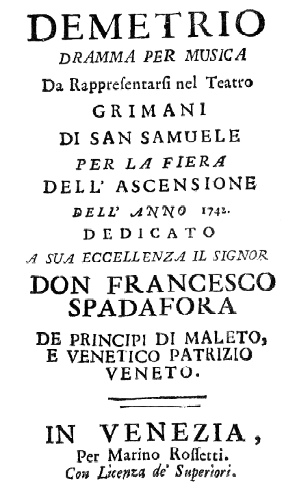 Christoph Willibald Gluck - Demetrio - titlepage of the libretto - Venice 1742